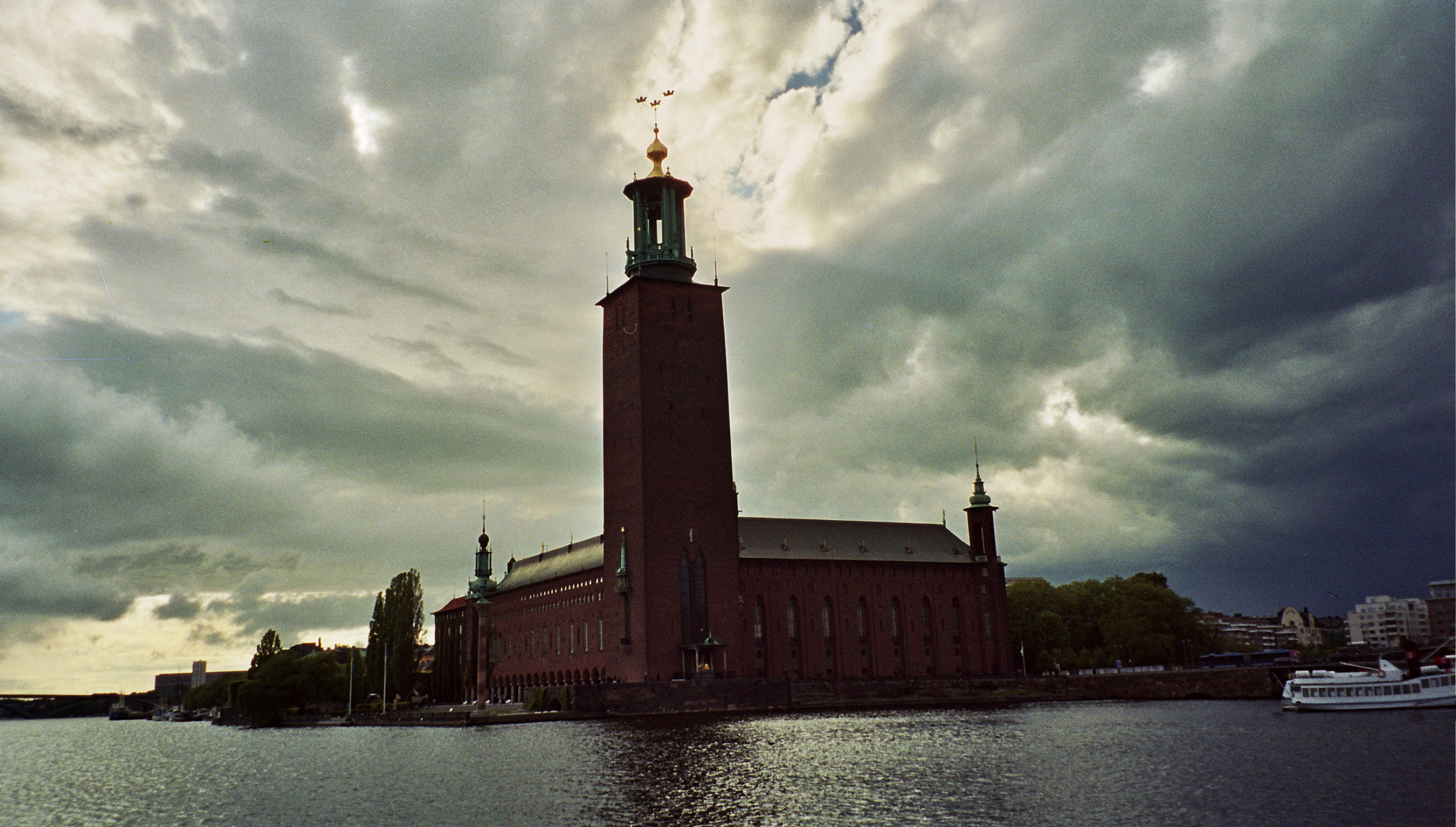 Stockholm Town Hall as seen from the lake